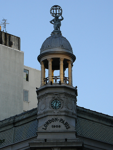 London-Paris old building in Montevideo, Uruguay.